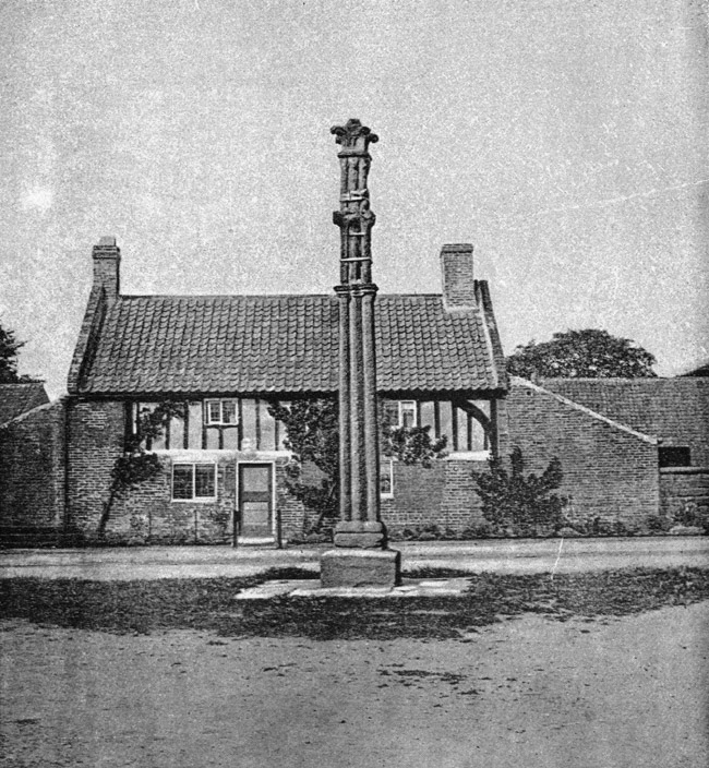 Battle monument for the Battle of Boroughbridge in nearby Aldborough. Photo taken in 1891.